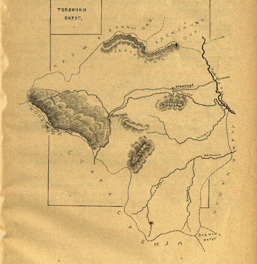 Districts of Serbia 1900